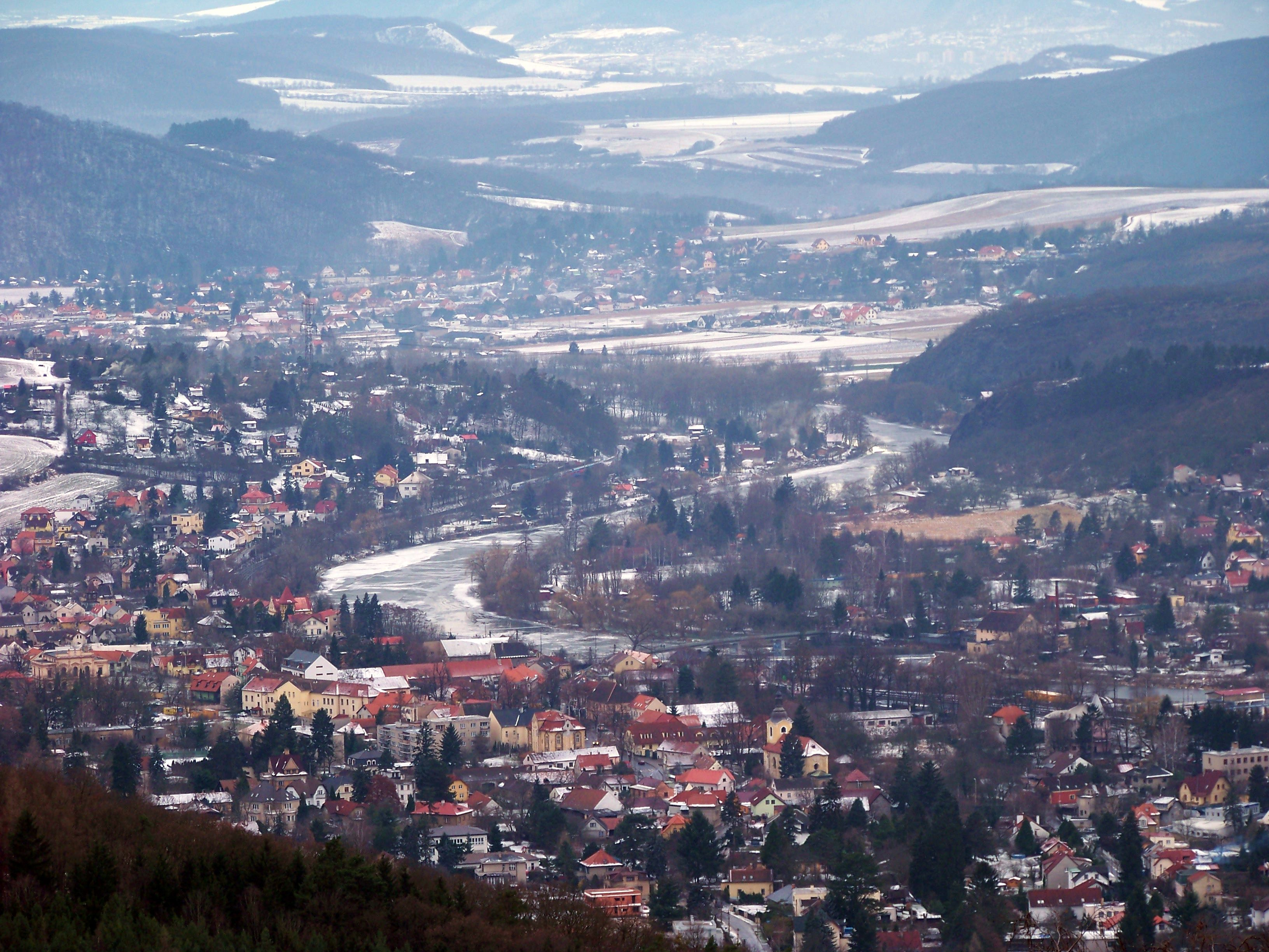 Řevnice, Prague-West District, Central Bohemian Region, the Czech Republic. A view of Řevnice town and Berounka River from Hvíždinec hill at the Hřebeny of Brdy.